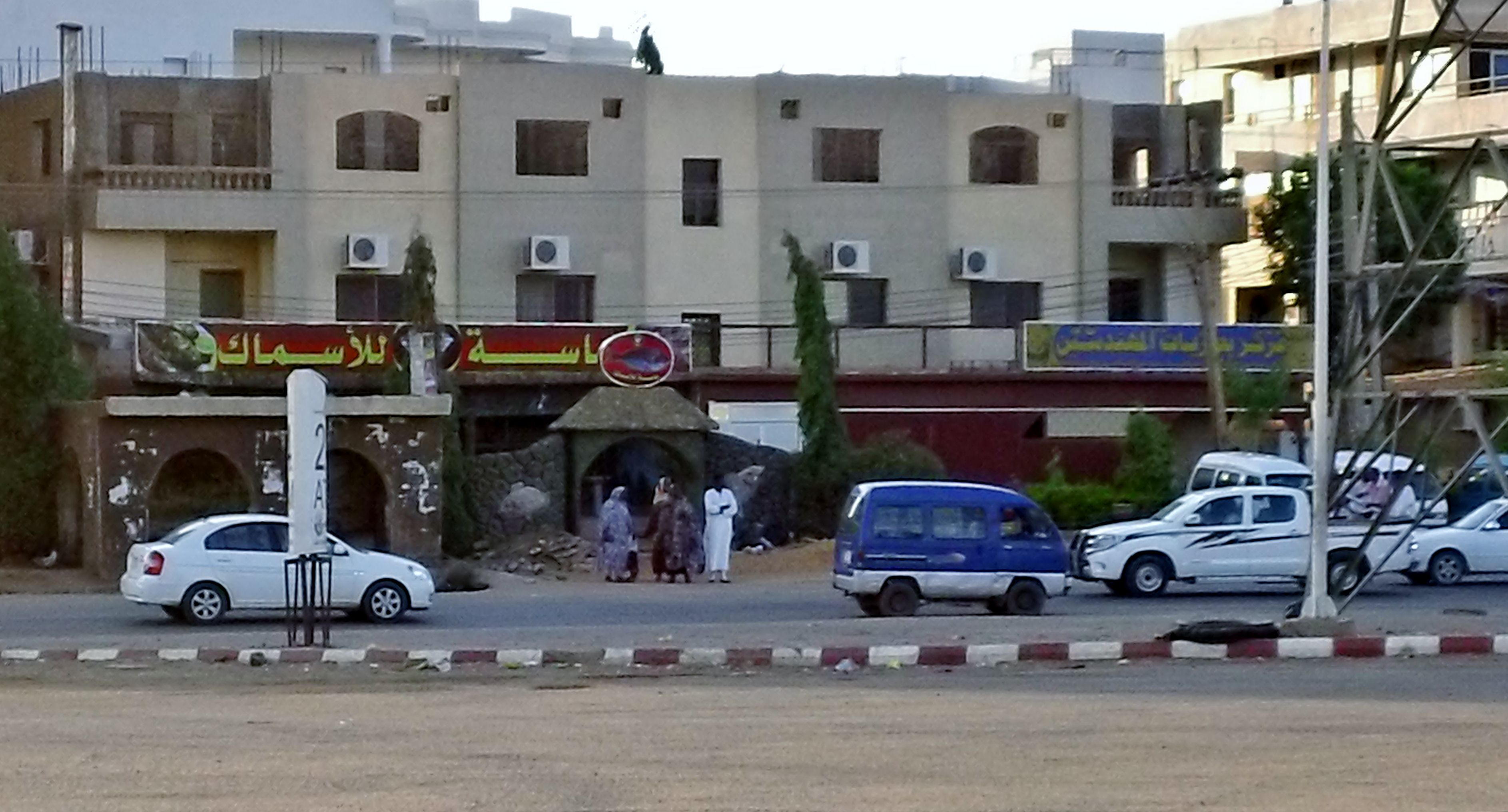 حي المهندسين-أم درمان-السودان